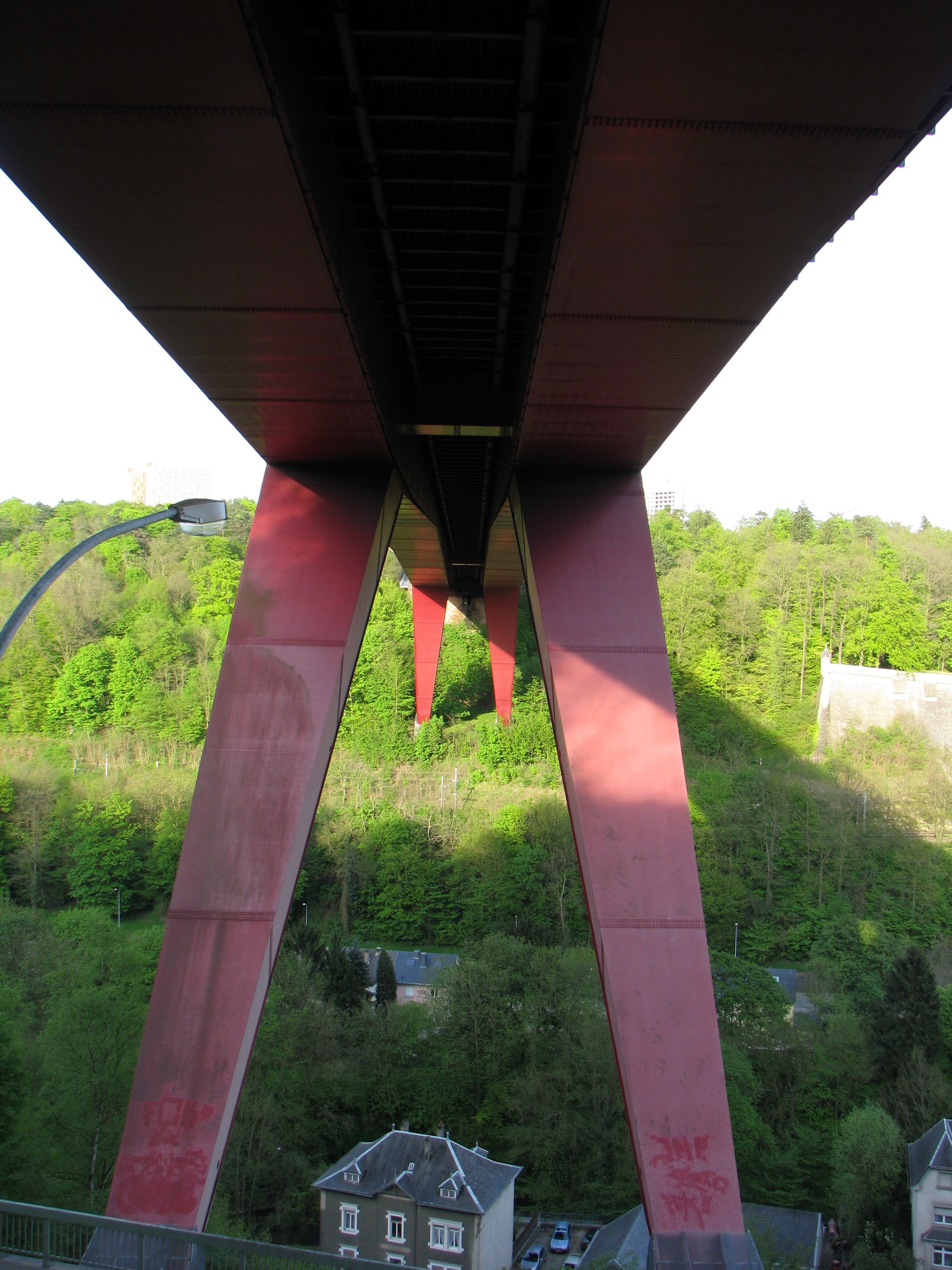 Grand Duchess Charlotte Bridge